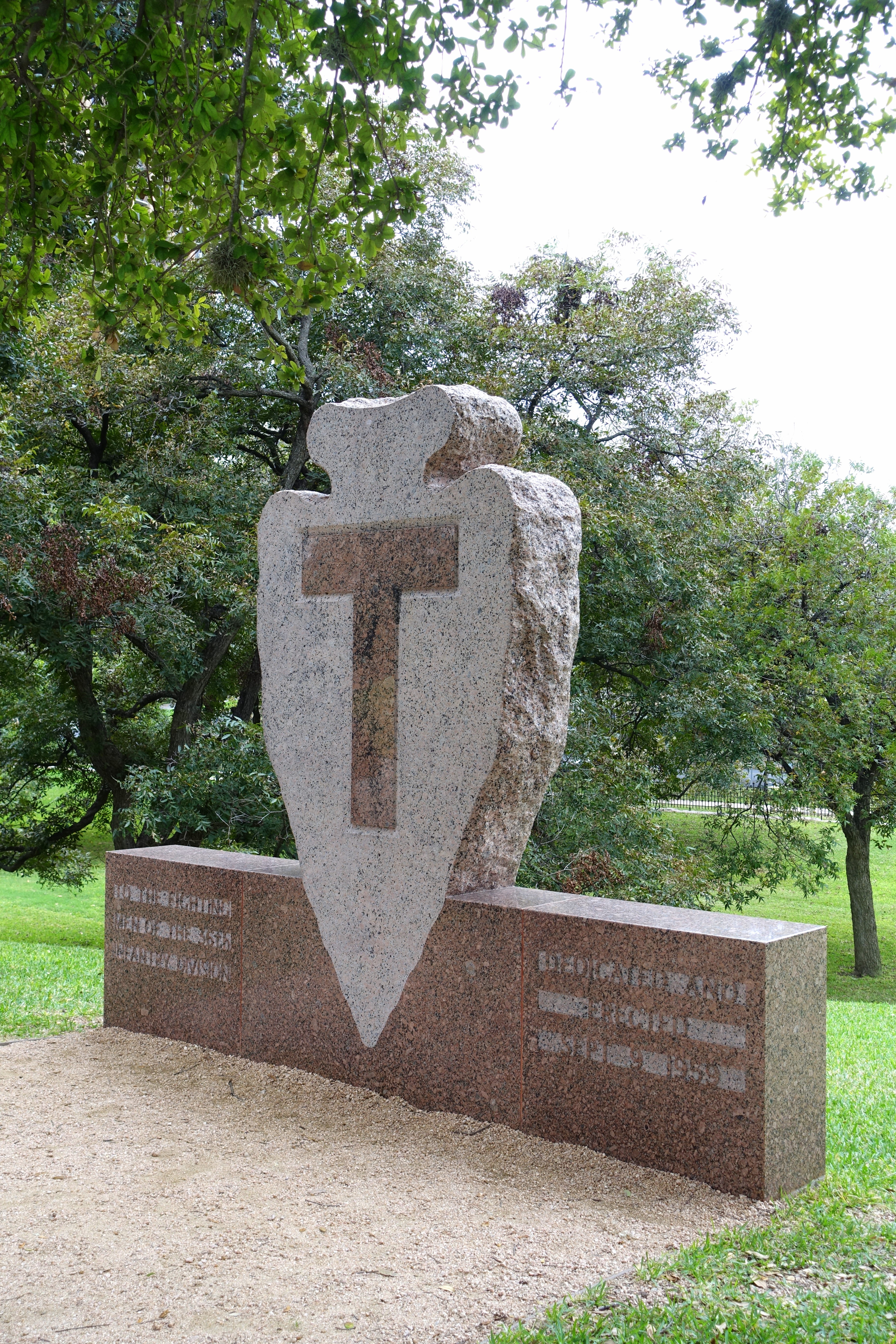 36th Infantry Division Memorial - Texas State Capitol grounds - Austin, Texas, USA.